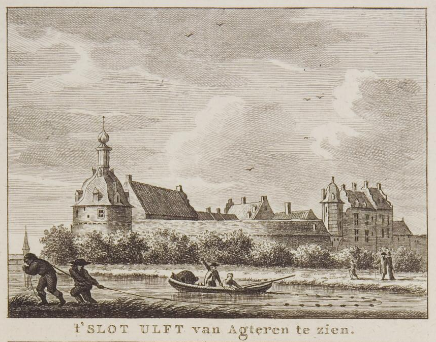 Backside Castle Ulft in 1784 (Netherlands)